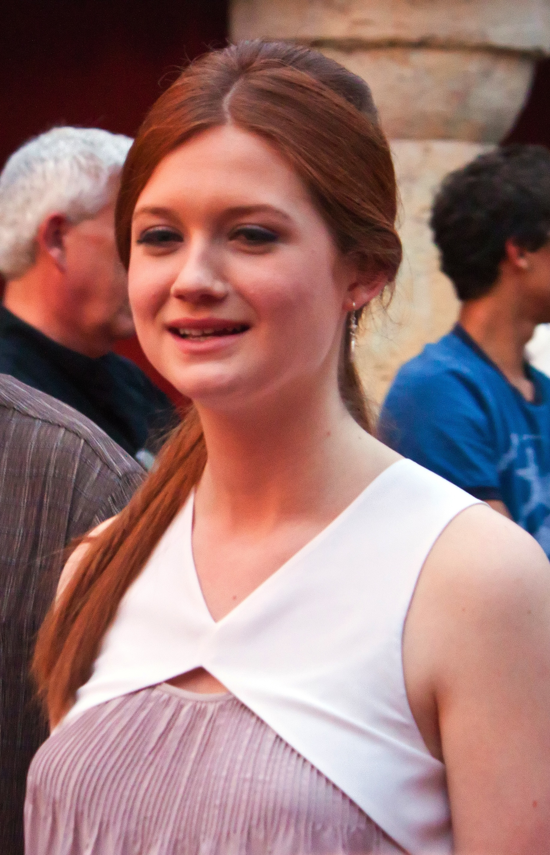 Bonnie Wright